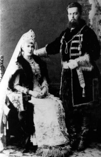 Russian ball at the GD Vladimir Alex. and Maria Pavlovna's Palace on the 25th january of 1883 . Maria Pavlovna and Vladimir Alexandrovitch